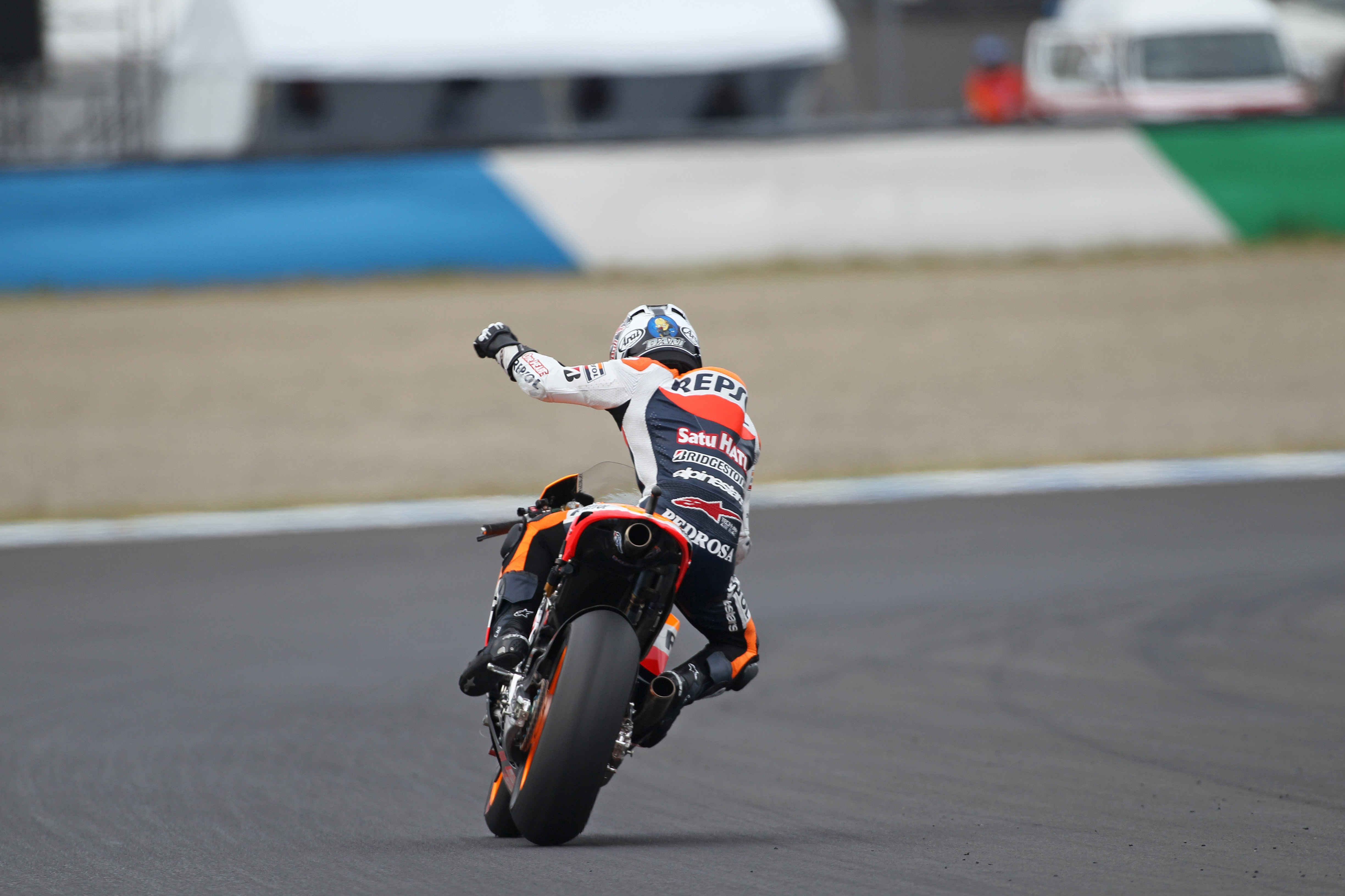 Dani Pedrosa, sitting on his Repsol Honda, celebrating after winning the 2011 Japanese Grand Prix.